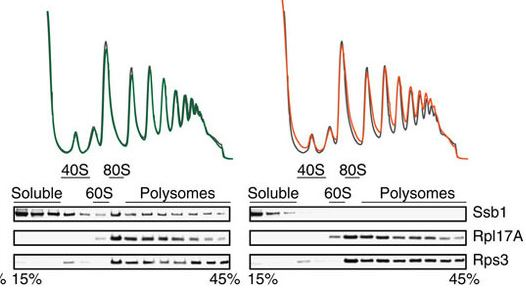 Profiles of yeast lysates after centrifugation through linear 15–45% (w/v) sucrose gradients with protein immunoblots below.